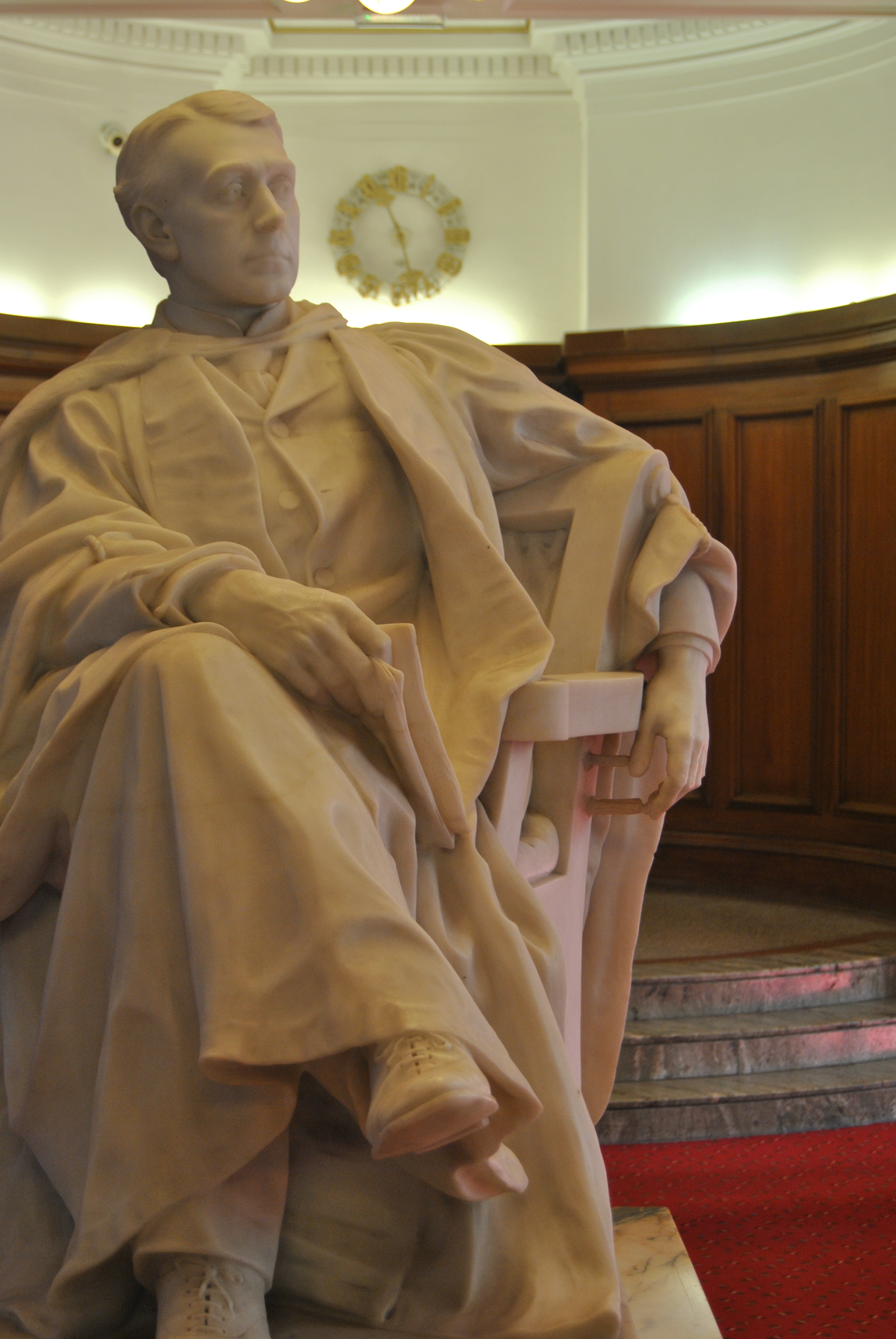 Marble statue of John Viriamu Jones, first principal of the University, in the entrance hall of the Main Building of Cardiff University. It was created by Sir William Goscombe John, and exhibited in 1906.